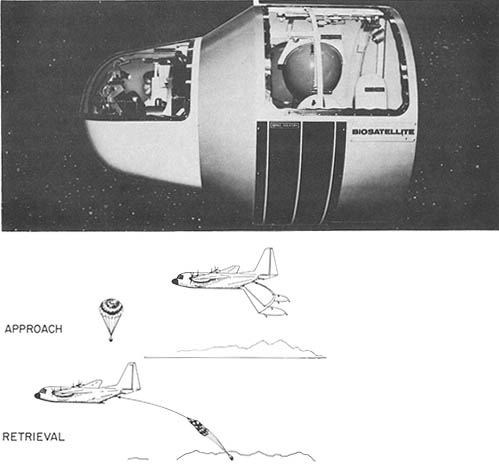 Drwaing of Biosatellite and Retrieval